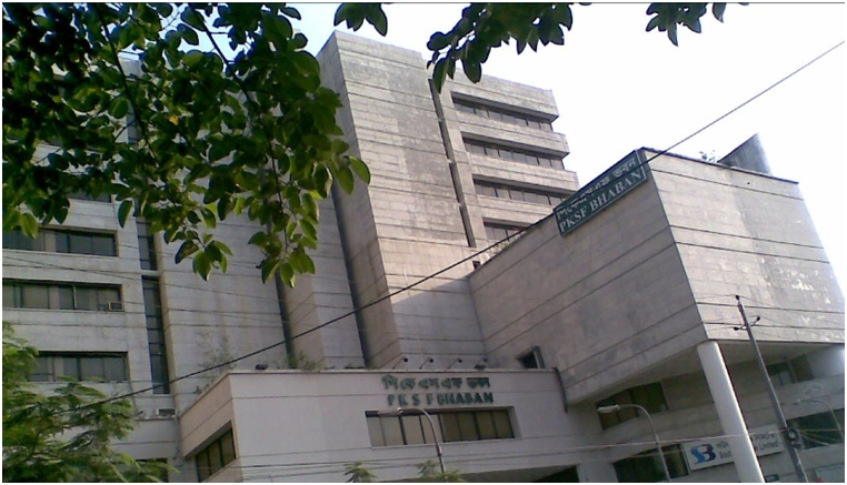 Palli Karma-Sahayak Foundation Bhaban( PKSF Bhaban),Plot: E-4/B,Agargaon Administrative Area, Dhaka-1207, Bangladesh